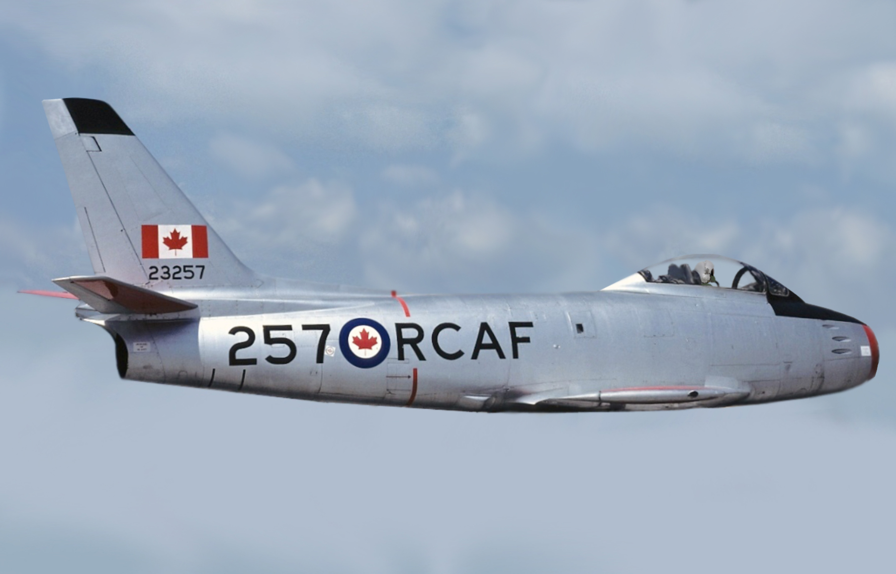 Canadair CL-13A Sabre